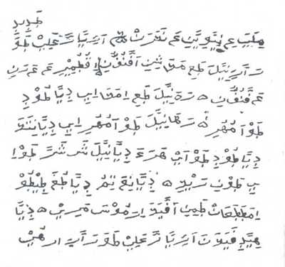 Sorabe-Malagasy Arabic script about RalitavaratraMalagasy: Sorabe malagasy momba an'i Ralitavaratra